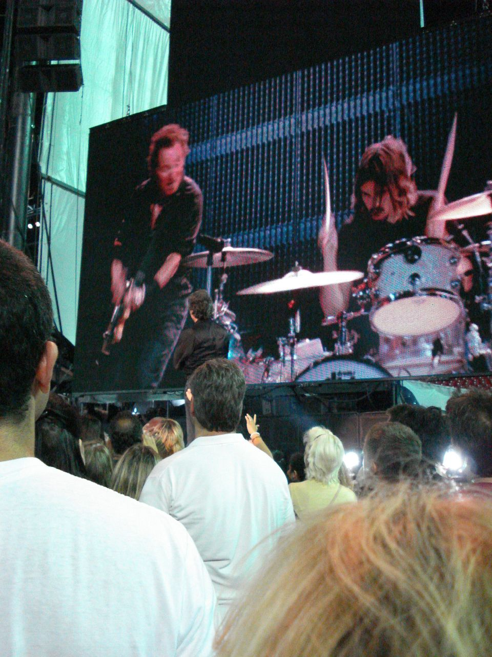 Max Weinberg watches as his son Jay Weinberg takes over the drumsticks on "Born to Run". Max is standing in front of the big screen wearing a black shirt. Monday night, July 28, 2008 Giants Stadium, East Rutherford, NJ.